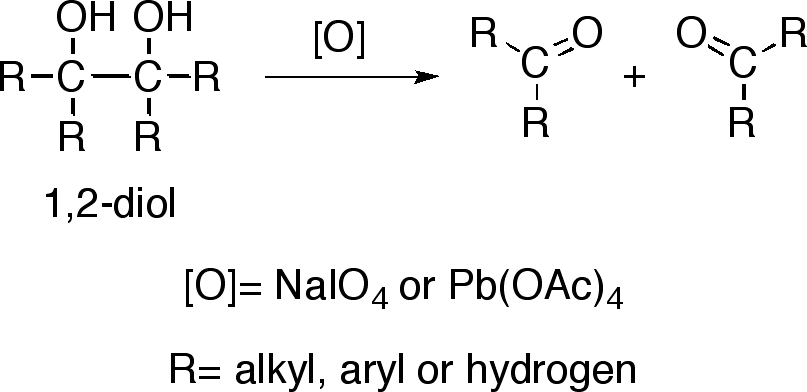 Oxidative breakage of 1,2-diols